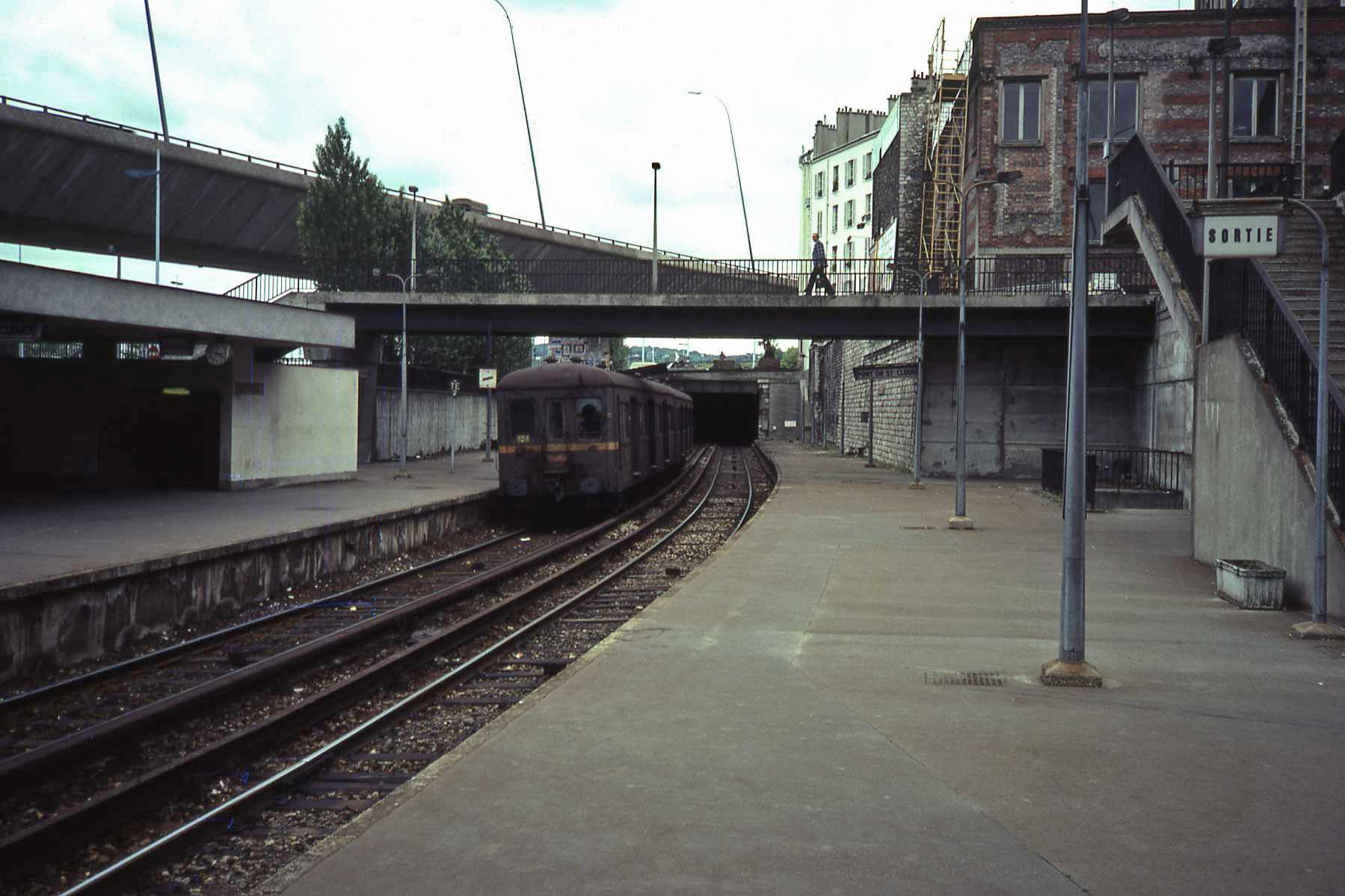 Third rail "standard" electric train at the station "Pont de Saint-Cloud" of the Puteaux Issy-Val de Seine line. This line is now converted as a tramline. (see picture 27 years later.